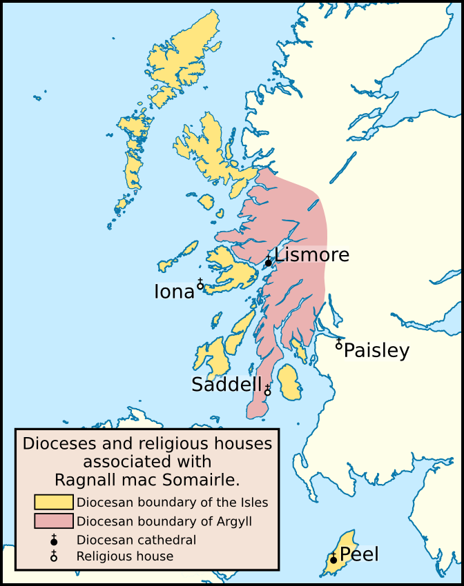 Map of the Diocese of Argyll and the Diocese of the Isles, in the Central Middle Ages. Also shown are the cathedrals of these dioceses, and certain monateries connected to Ragnall mac Somairle (also known as Ranald or Reginald, son of Somerled). I based this image off the maps shown in the following three books: Rigby, S.H. (2003) A Companion to Britain in the Later Middle Ages. Blackwell Publishing. ISBN 0-631-21785-1. page 399; and Barrell, A.D.M. (1995) The Papacy, Scotland and Northern England, 1342-1378. Cambridge University Press. ISBN 0 521 44182 X. page xxiv.; and Barrow, G.W.S (1981) Kingship and Unity: Scotland 100-1306. University of Toronto Press. ISBN 0 8020 2348 6 Invalid ISBN. page 60.